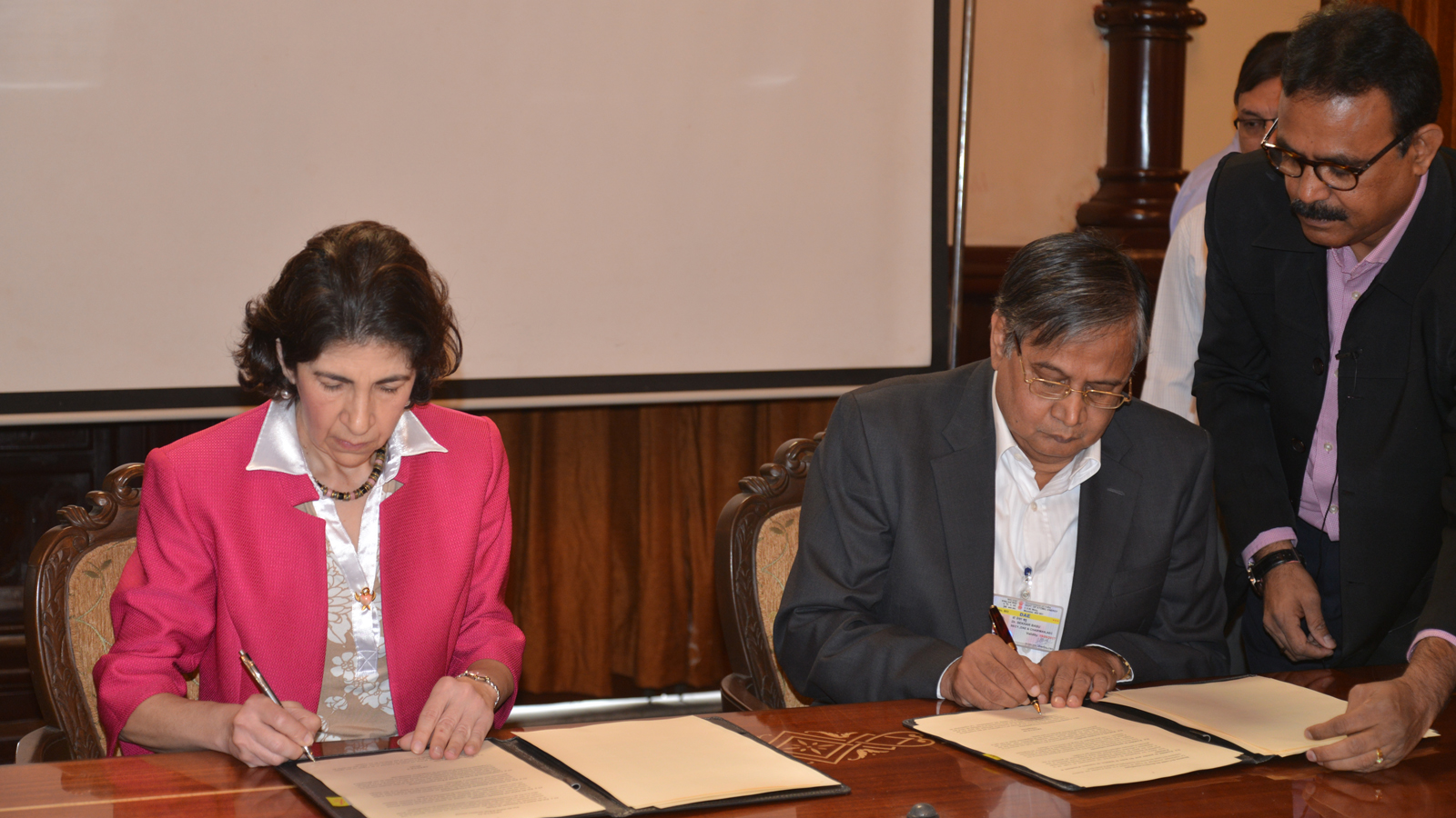 Sekhar Basu and CERN Director-General Dr. Fabiola Gianotti sign the agreement for India to be an Associate Member of CERN